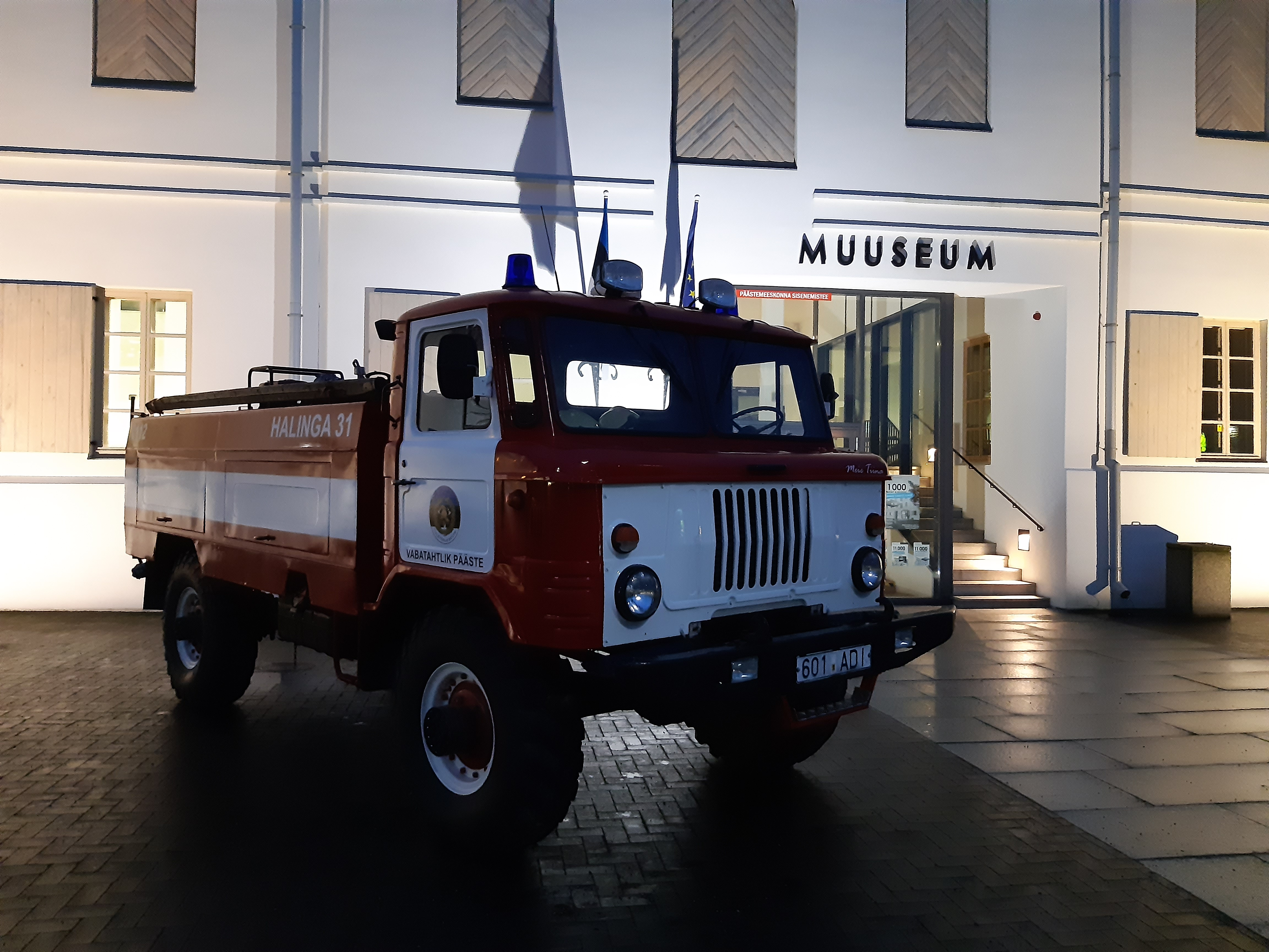 Fire engine of Pärnu-Jaagupi Tuletõrjeselts in front of Pärnu Museum in January 2020. .